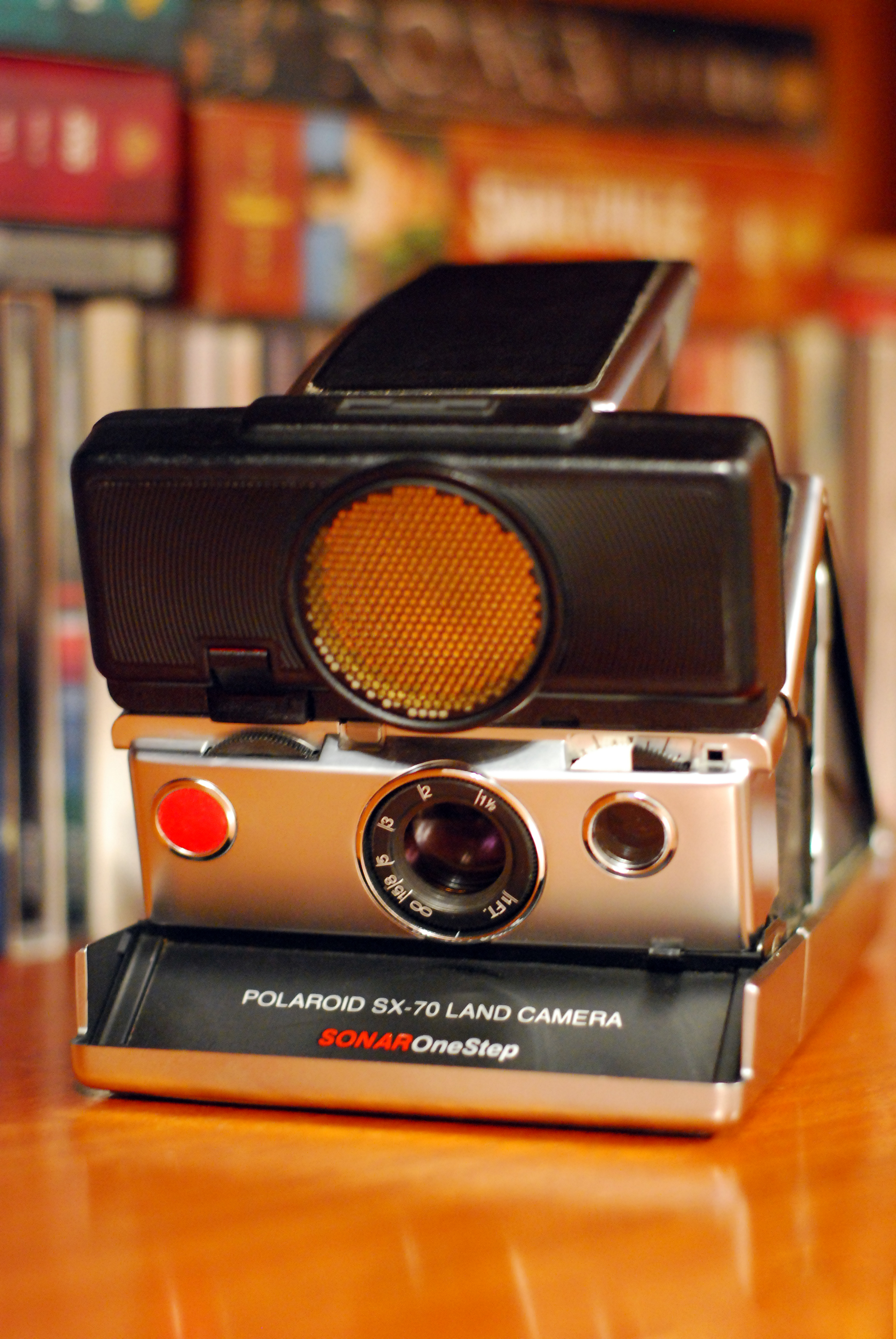 Polaroid SX-70 Sonar OneStep.